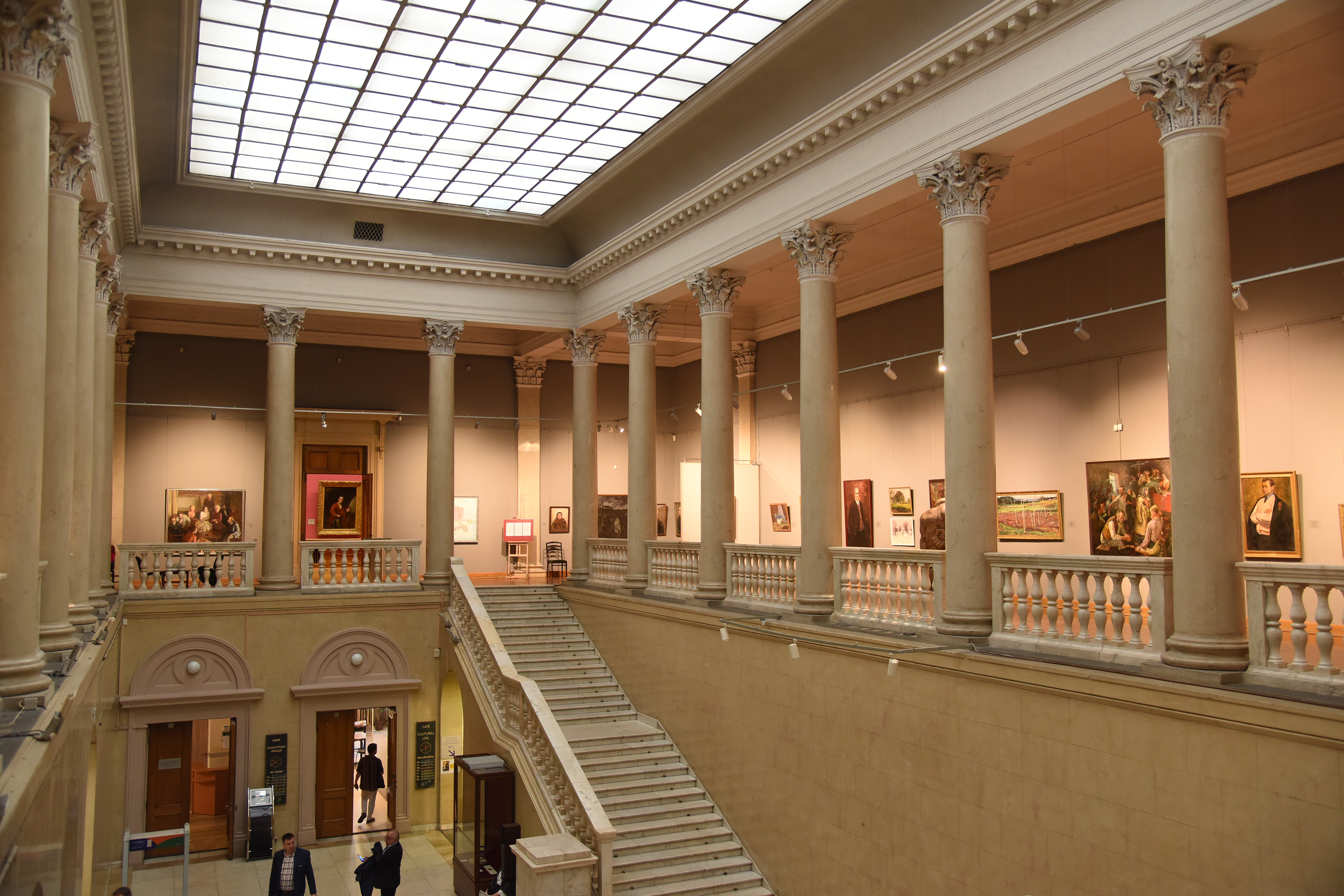 National Arts Museum of the Republic of Belarus